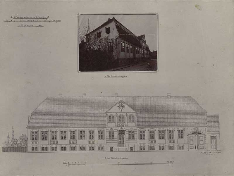 Architect Aage Langeland-Mathiesens 1901 restoration project for Kongegården.